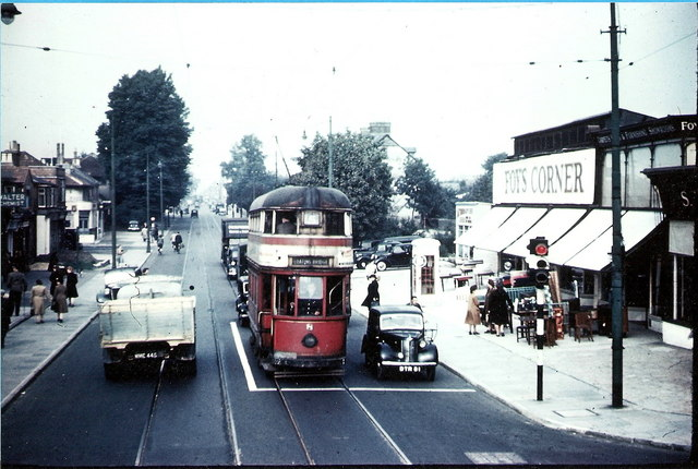 Foys Corner, Shirley, Southampton, 1949